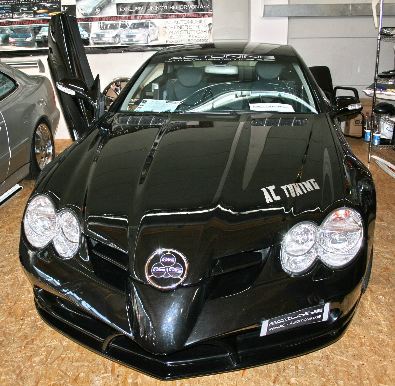 A Modified Mercedes-Benz SL